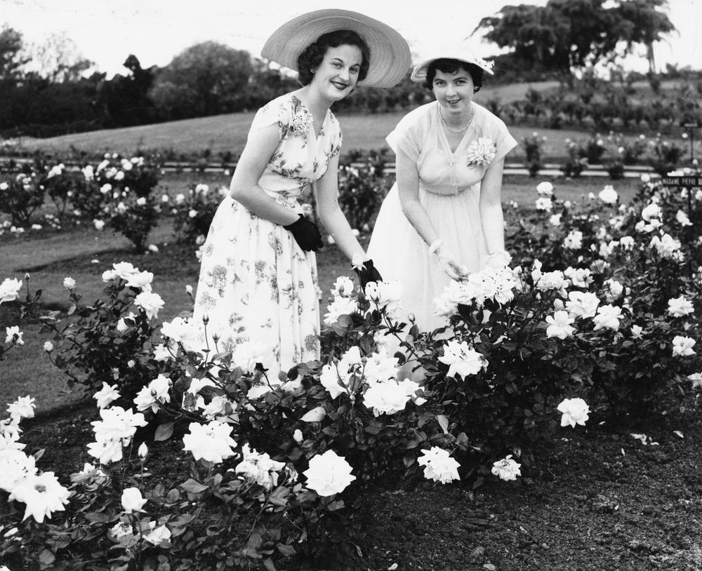 Creator: Unidentified Location: Brisbane, Queensland Description: New Farm Park is a significant historic park was built to supply food for the recently founded convict settlement on the Brisbane River. A racecourse was built on the site in 1846, which operated until 1913, when the land for the park was acquired by the Brisbane City Council. During the late 1990s 'the summerhouse' kiosk was based in New Farm Park. 'the summerhouse' was a popular meeting point for weekend breakfasts and won many awards. However during 2000 'the summerhouse' was destroyed by fire and has yet to be rebuilt. View this image at the State Library of Queensland: Information about State Library of Queensland’s collection: You are free to use this image without permission. Please attribute State Library of Queensland.